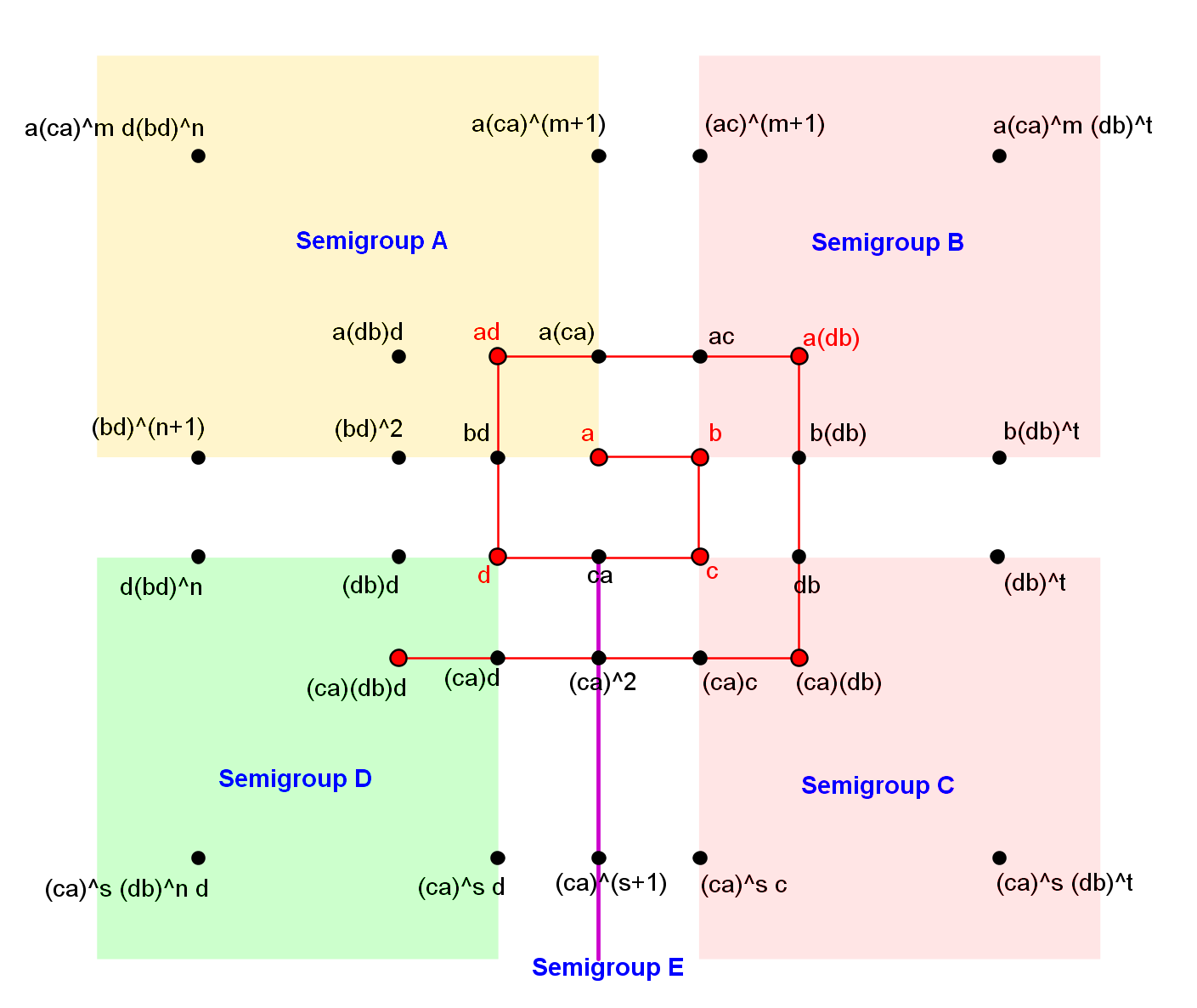 The structure of the fundamental four-spiral semigroup Sp4.